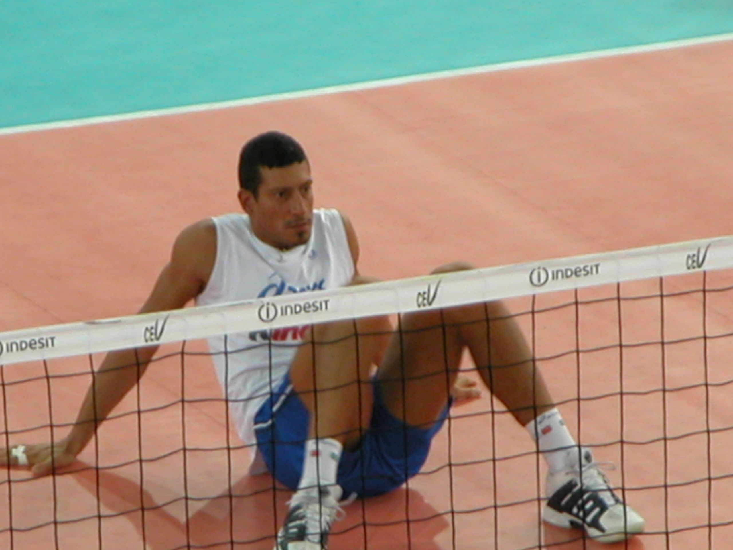 Italian volleyball player Luigi Mastrangelo